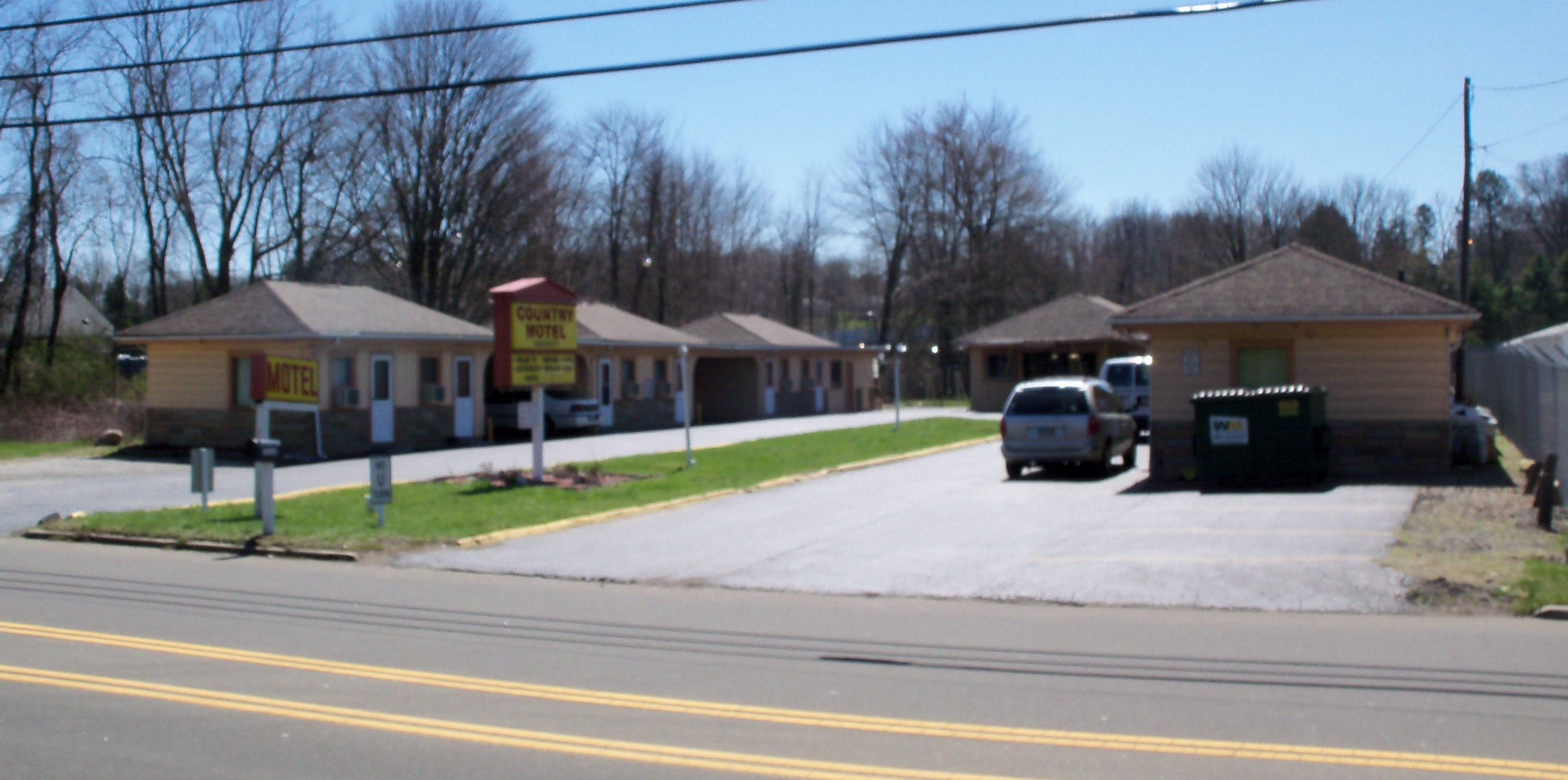 An old motel on the Lincoln Highway just west of Massillon, Ohio